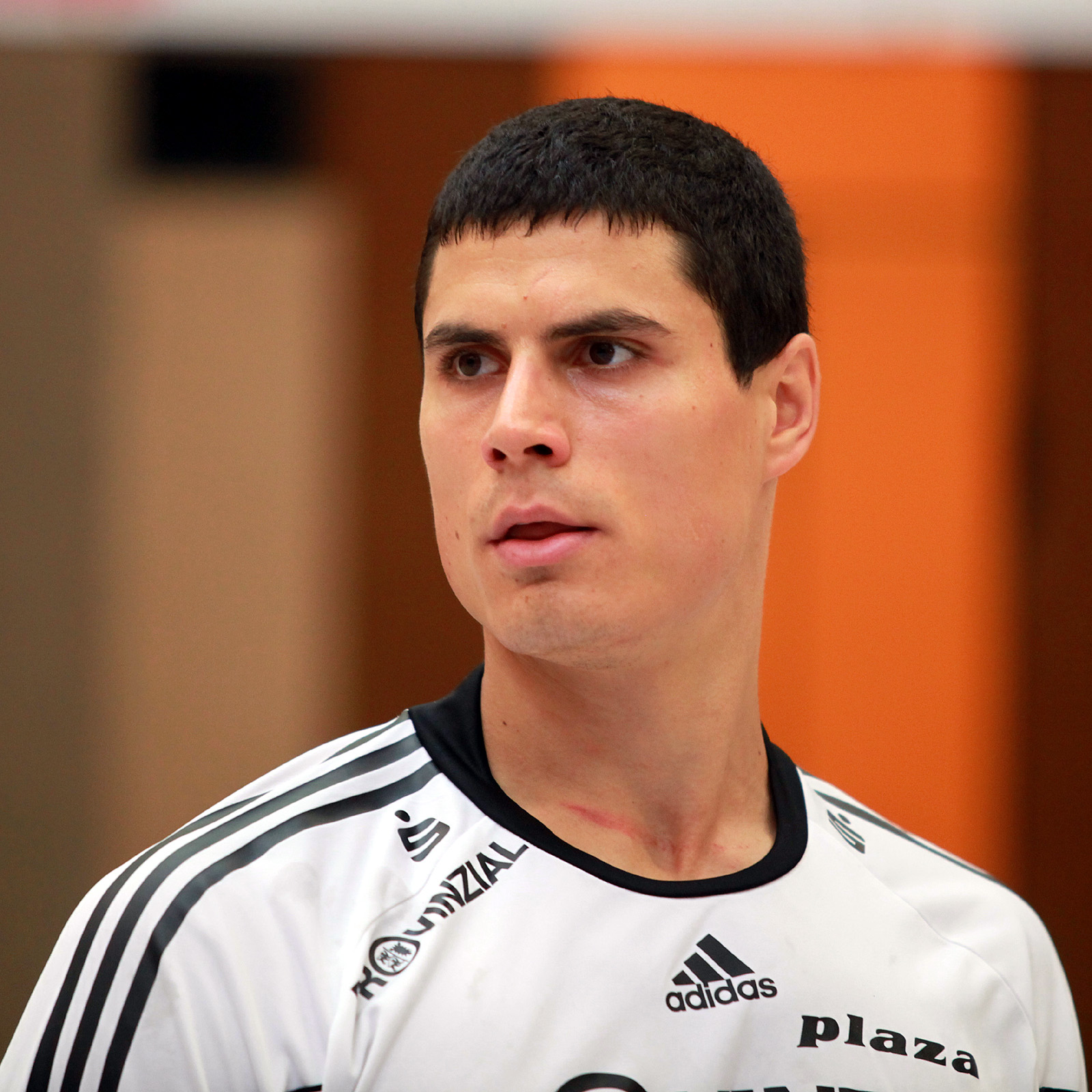 Milutin Dragićević, handball player from Serbia, on August 14th, 2010 in Ehingen (Germany), during the Schlecker Cup 2010.